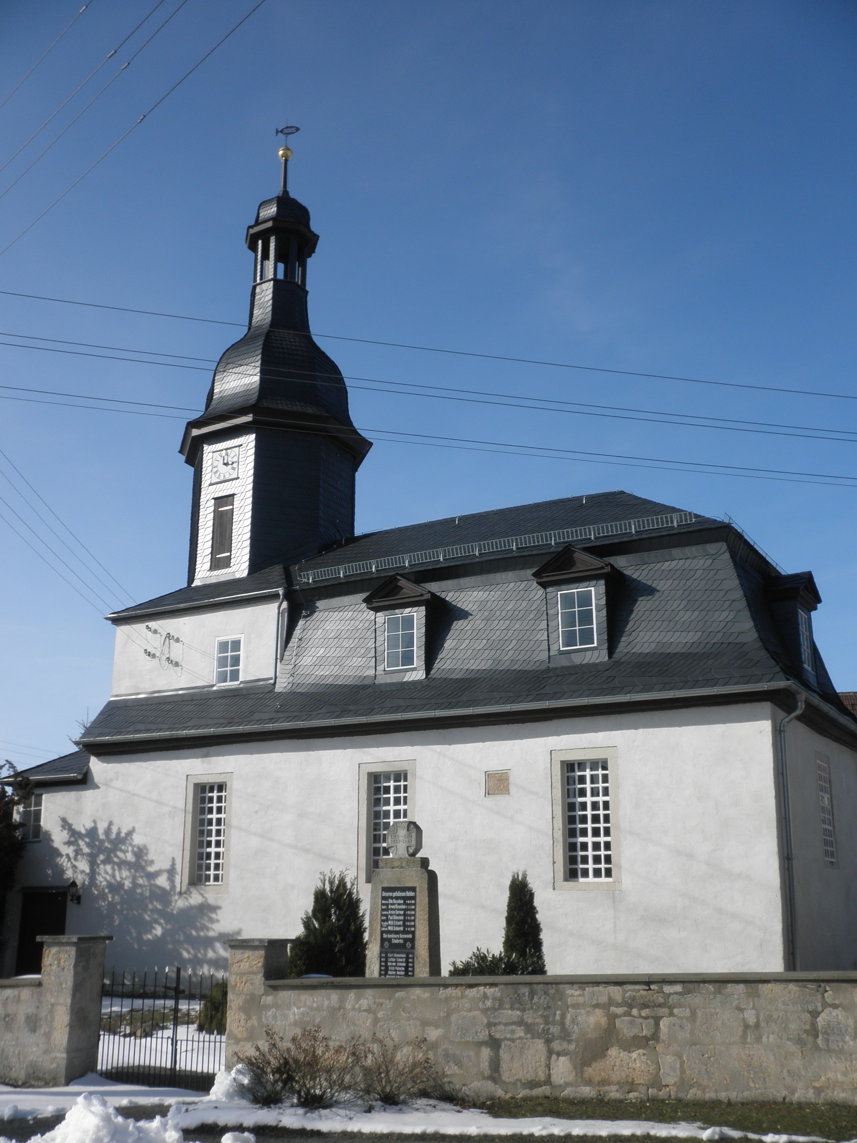 Church in Stiebritz in Thuringia